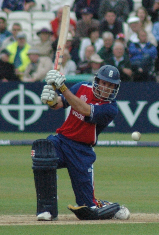 England cricketer Andrew Strauss